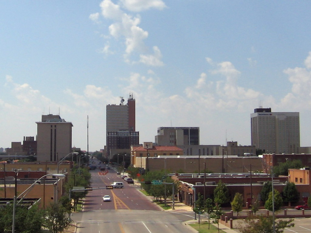 Downtown Lubbock taken from I-27 on 2005-09-10. From center to right you can see the NTS building, Lubbock National Bank and the Bank of America building on the right. Immediately in front of the NTS Tower is the Pioneer Hotel, which was built in 1916. Photo taken by Brad Johnson.